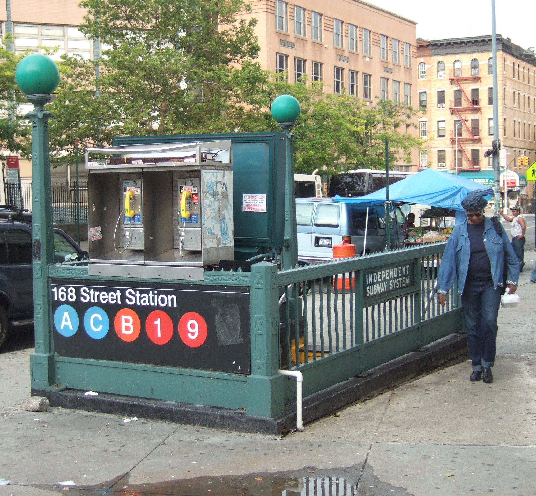 The entrance the 168th Street subway station in New York City. Notice the poorly updated signage.